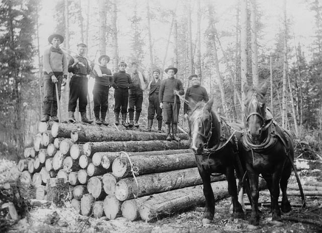 horses logs Ontario ca 1870-1940